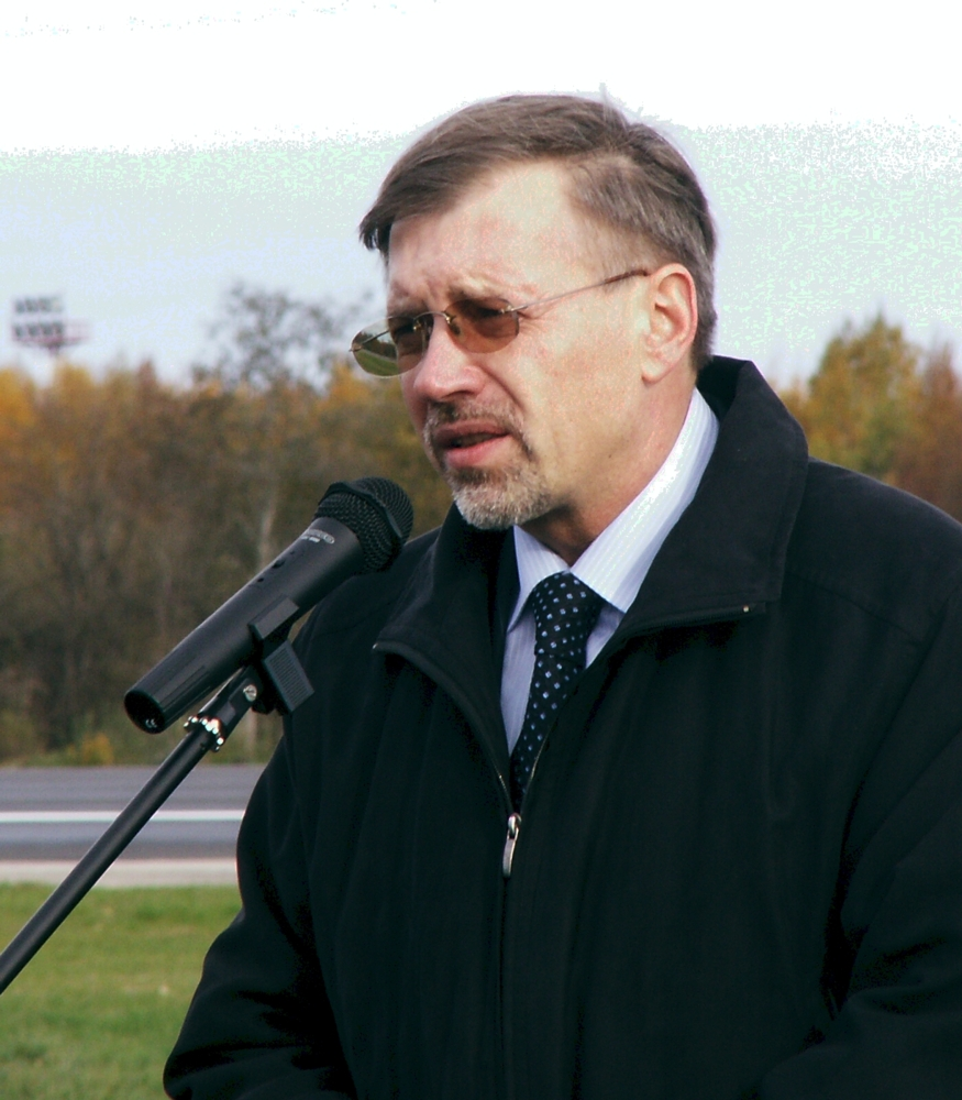 Premier Minister of Lithuania Gediminas Kirkilas